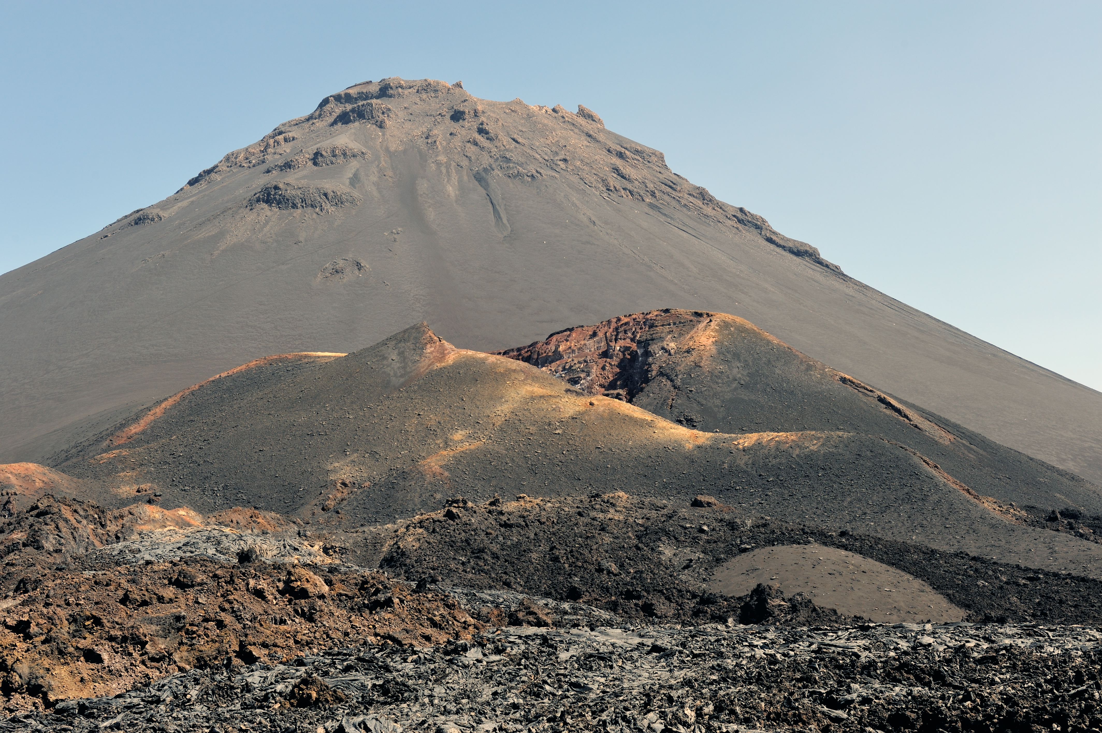 Cape Verde, island of Fogo: the volcano Pico do Fogo with additional cone.